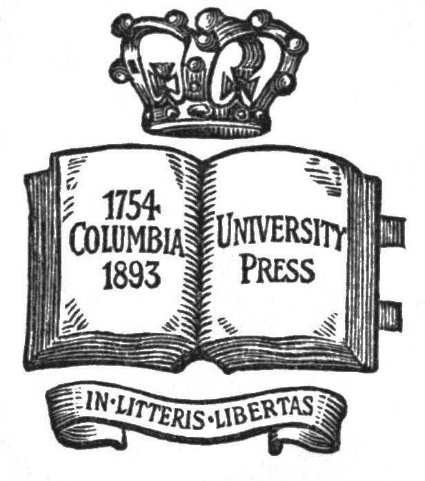 The logo of the Columbia University Press, taken from the title page of "Gloria D'Amor", published in 1916